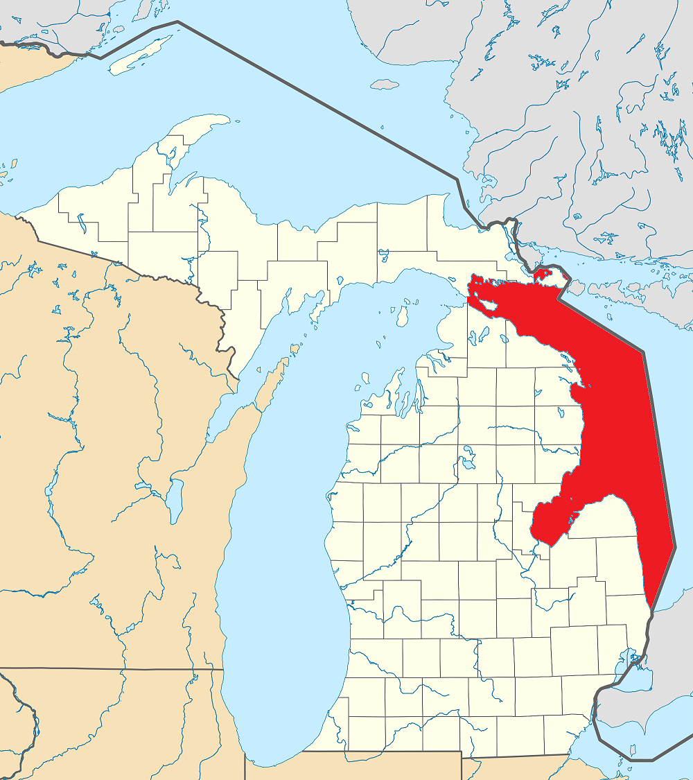 Illustration of the Michigan portion of Lake Huron